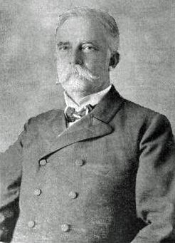 Charles Montague Cooke was born May 6, 1849 married Anna Charlotte Rice (1853-1934) on April 30, 1847. He became president of the Bank of Hawaii and C. Brewer & Co. Their children included scientist Charles Montague Cooke, Jr. (1874–1948) and businessman Clarence Hyde Cooke (1876–1944). Son George Paul Cooke married the granddaughter of missionary Gerrit P. Judd, and their son was musician Francis Judd Cooke (1910–1995). He died in 1909. His wife founded the Honolulu Academy of Arts from their estate.